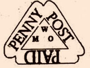 Image of postmark used by London Penny Post in 1681